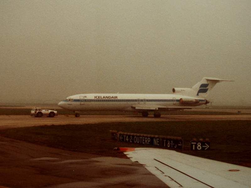 Icelandair Boeing 727-200 in Copenhagen Airport, 1989.